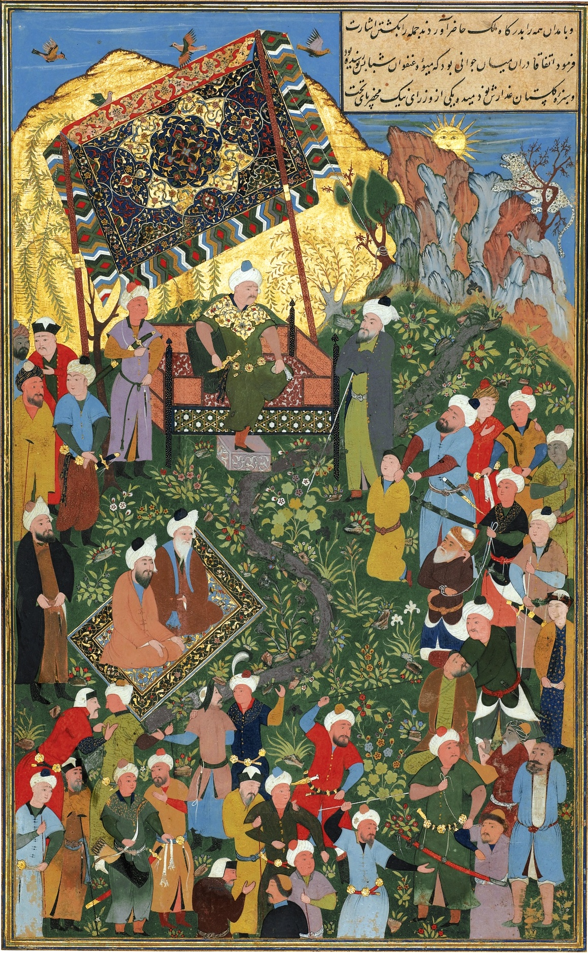 LEAF FROM A COPY OF SA’DI’S GULISTAN THE CAPTURED ARAB ROBBERS BEFORE THE KING, ASCRIBED TO MAHMUD MUZAHHIB, BUKHARA, mid of 16 century, Sotheby's